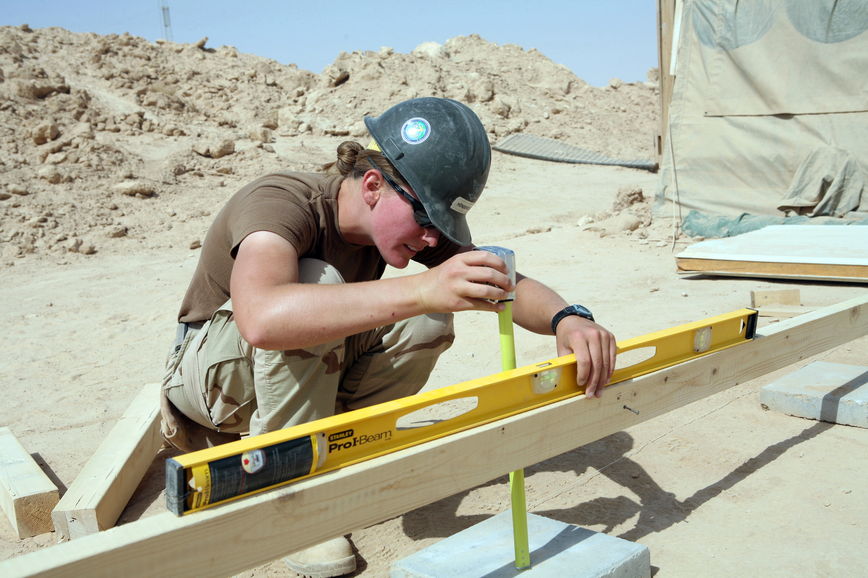 IRAQ (June 6, 2008) Builder 2nd Class Kathryn Henderson, assigned to Naval Mobile Construction Battalion (NMCB) 3, uses a horizontal level and tape measure to assure correct height and level for placement of a floor for a South West Asian hut that will be assigned to the battle aide station at a remote Marine outpost. NMCB-3 is deployed to Iraq and other areas of operations supporting Operation Iraqi Freedom and Enduring Freedom. U.S. Navy photo by Mass Communication Specialist 2nd Class Kenneth W. Robinson (Released)